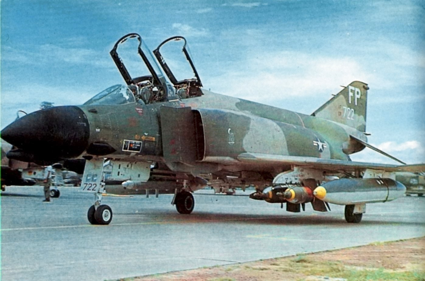 A U.S. Air Force McDonnell F-4D Phantom II from the 497th Tactical Fighter Squadron, 8th Tactical Fighter Wing, taxies at Ubon Royal Thai Air Force base in 1971. The aircraft is armed with two BOLT-117 (BOmb, Laser Terminal-117). The BOLT-117 was later redesignated as the GBU-1/B (Guided Bomb Unit) and was the world's first laser guided bomb. The aircraft and carries a AN/ALQ-72 jamming pod under the wings, and a strike camera in the forward left missile bay.